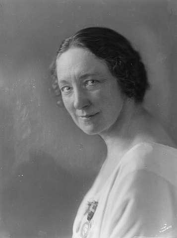 Norwegian stage actress and stage producer Johanne Dybwad.